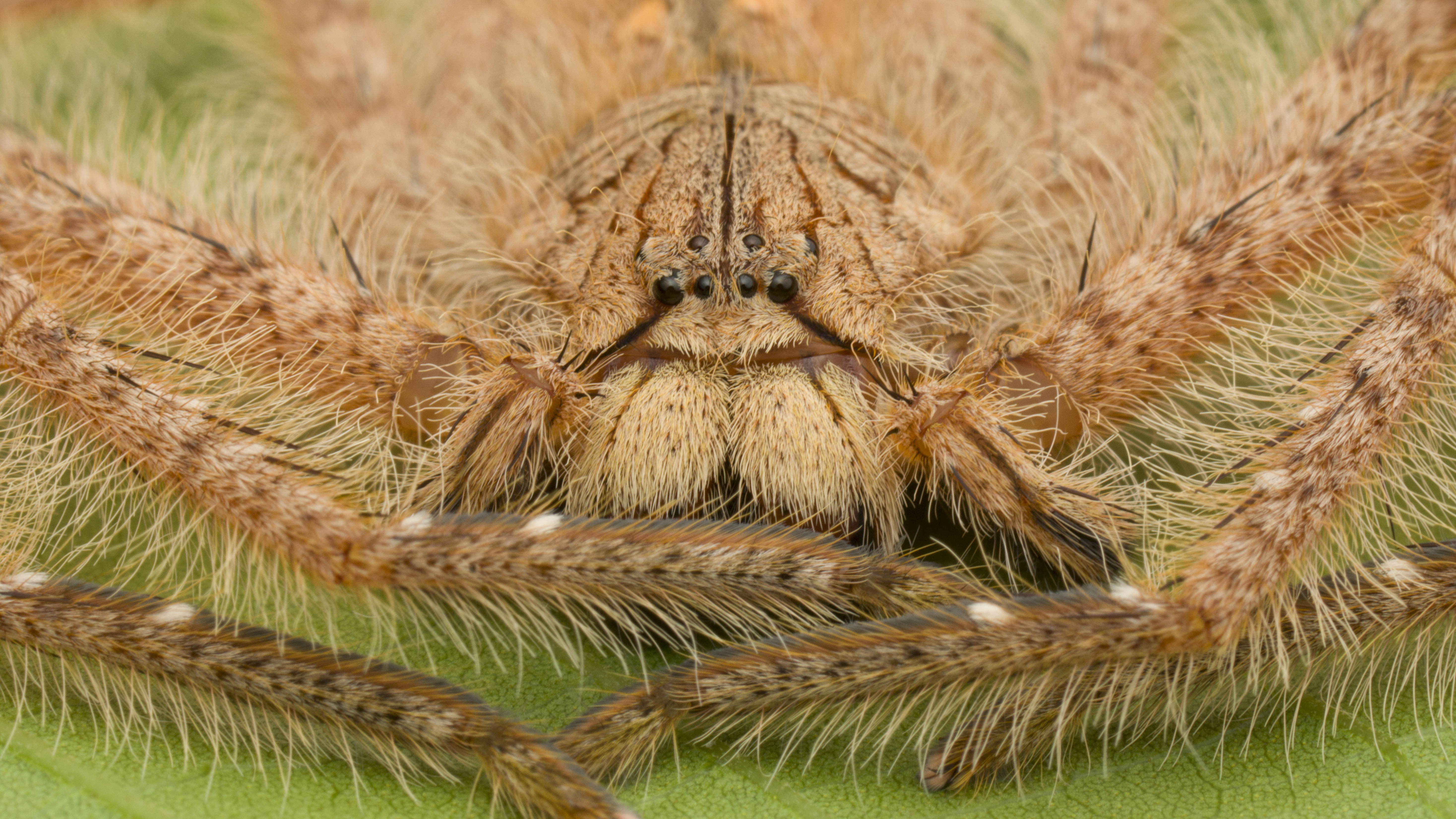 Heteropoda davidbowie is a species of huntsman spider of the Heteropoda genus. It was described from Cameron Highlands in peninsular Malaysia and named in honor of singer David Bowie.